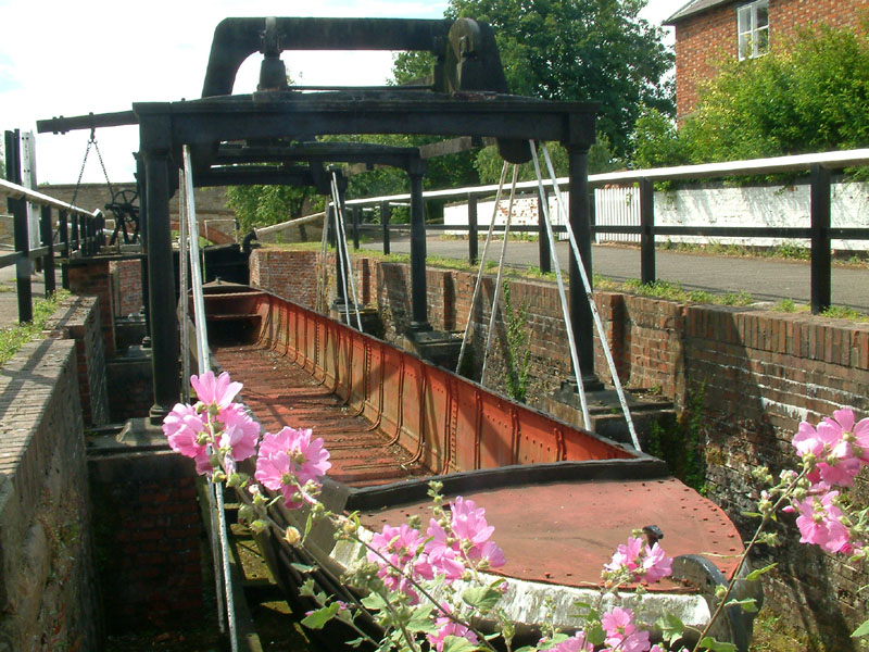 Boat-weighing machine in an old lock at Stoke Bruerne, originally from the Glamorganshire Canal, used to help with gauging boats to enable accurate tolls to be levied on the weight of goods carried. Photograph by Stephen Dawson, 10 July 2004